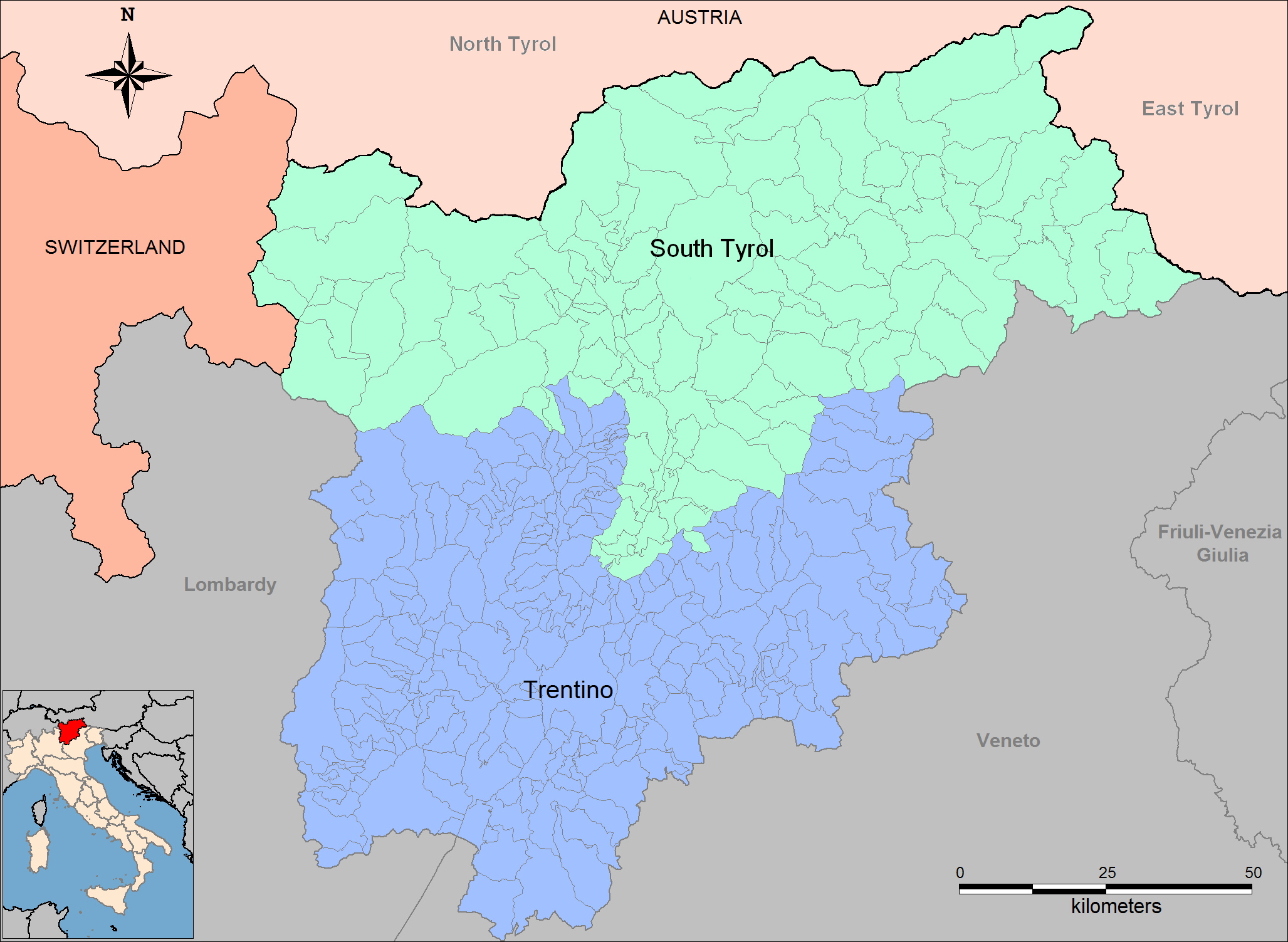 Map of the provinces of Trentino-South Tyrol region in north Italy.